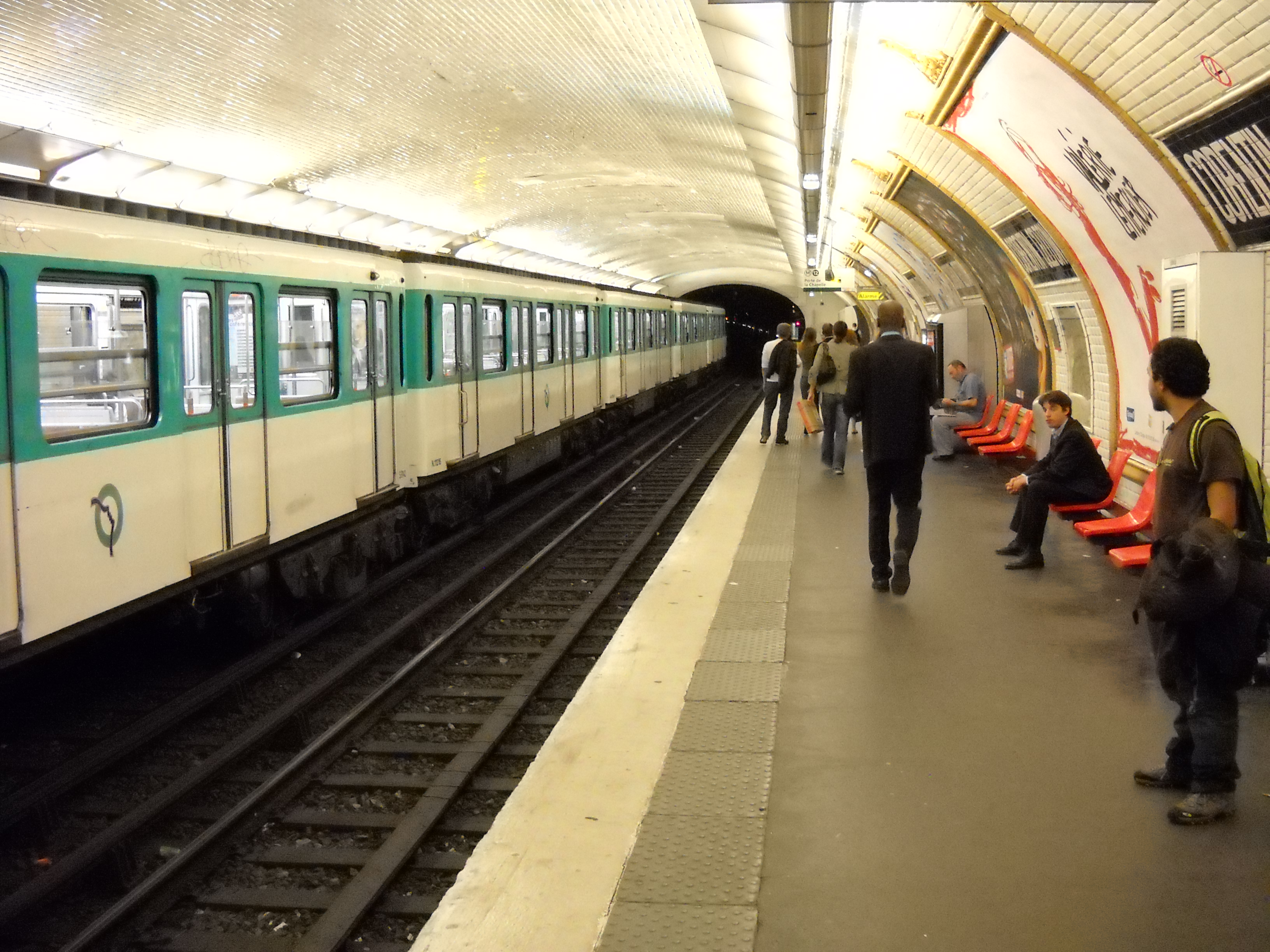 "Corentin Celton" station, on Paris Metro line 12.